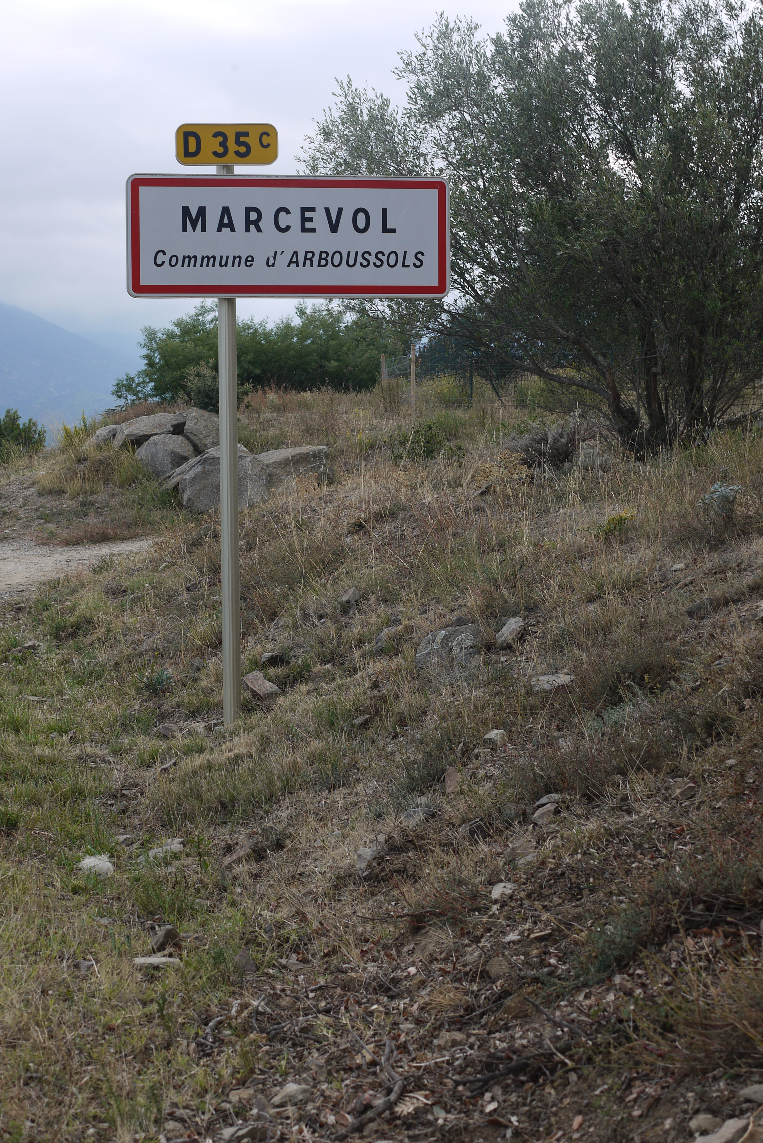 The city limit sign in Marcevol on road D35C